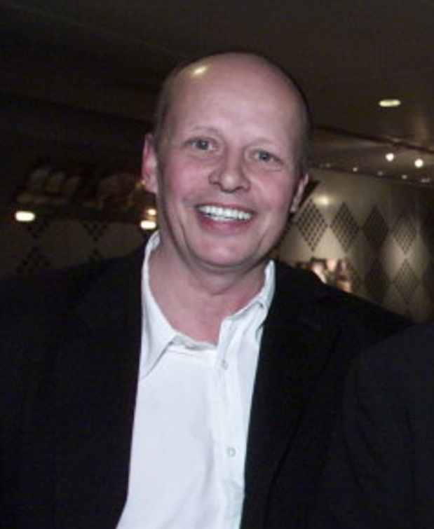 Shu-bi-dua member Michael Hardinger at the film musical opening of "Askepop". His was guitarist and member of Shu-bi-dua from 1973 to 1997). Picture is cropped